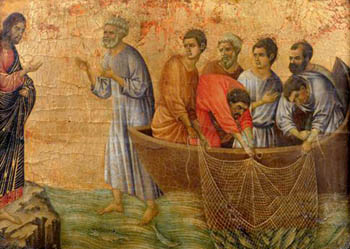 The miracle of the Catch of 153 fish by Duccio, 14th century Artist died long ago, 2d art